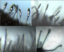 Conidiophores of corn gray leaf spot fungus.